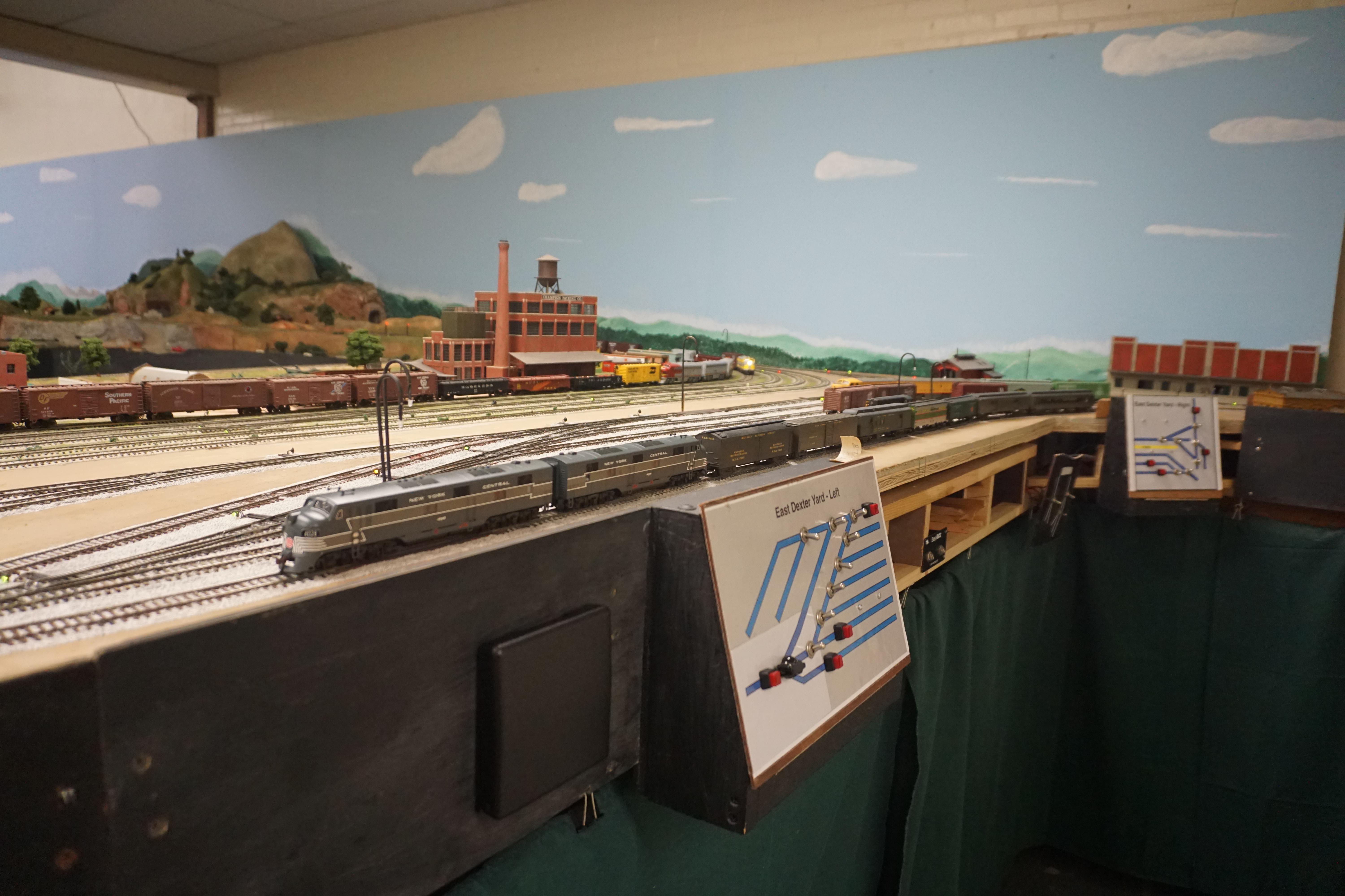 The HO-scale layout at the 2019 East Texas Model Railroad Club Open House in Commerce, Texas (United States).